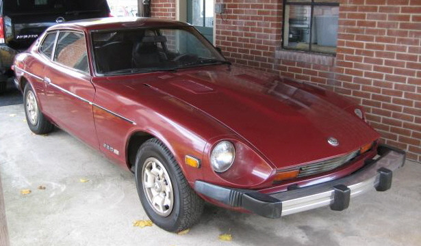 example of 1977-78 280Z